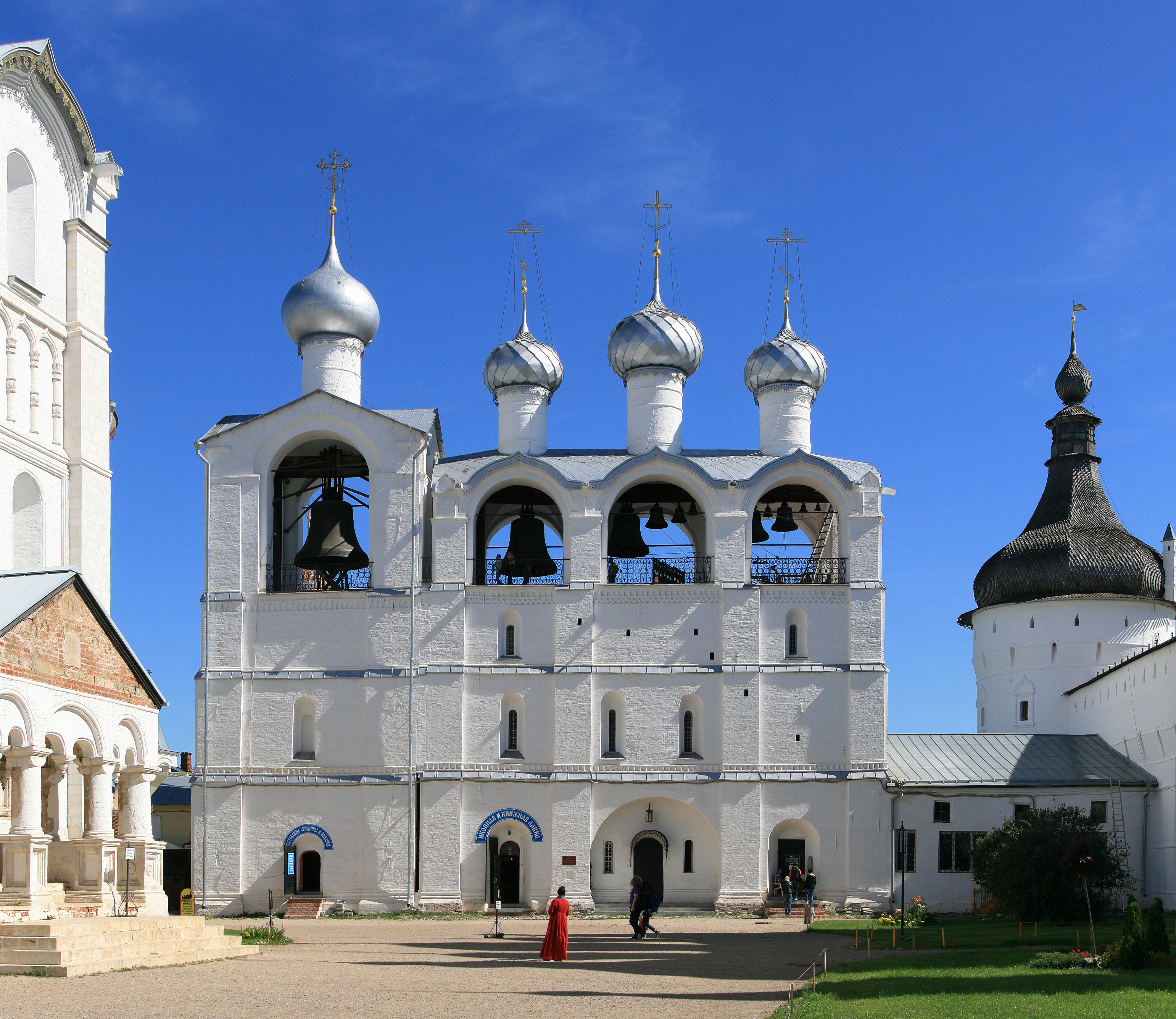 The bell-tower of Rostov Kremlin, 1682-1689, Rostov Veliky, Yarioslavl oblast